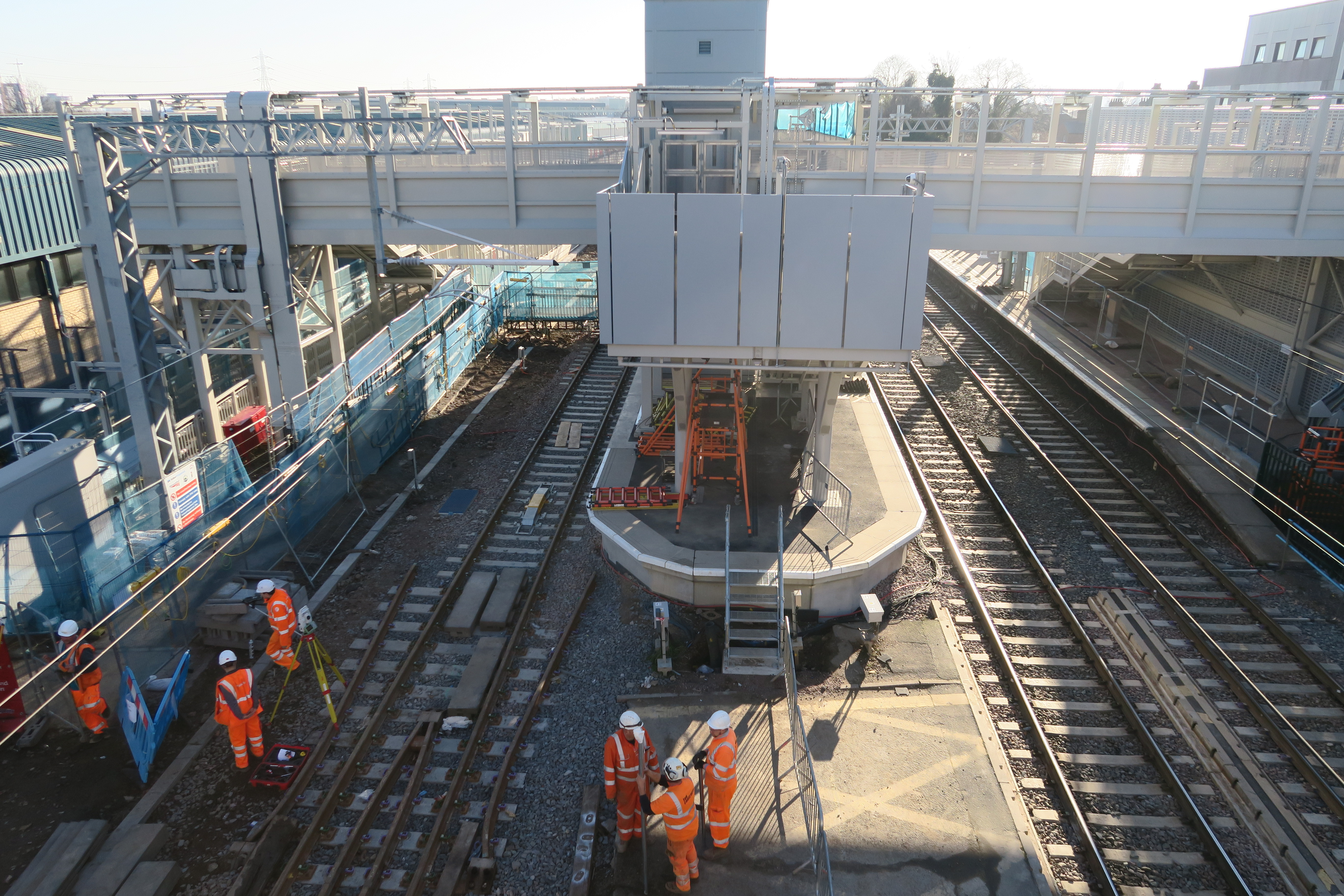 Construction of an island platform and a third track at Northumberland Park railway station in 2019. Construction started in 2017.